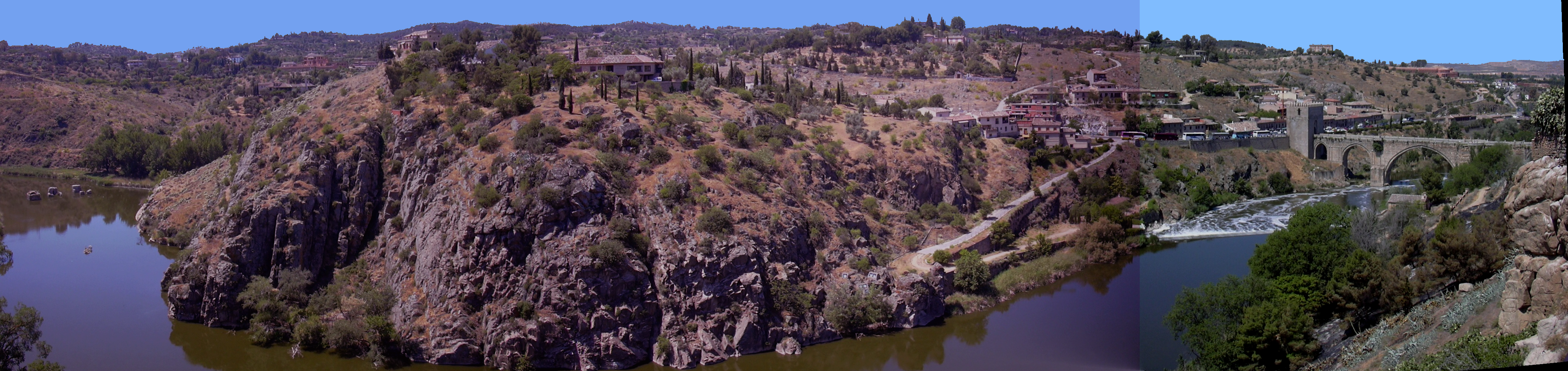 Panoramic image made using 3 images of the Tagus running past Toledo, Spain